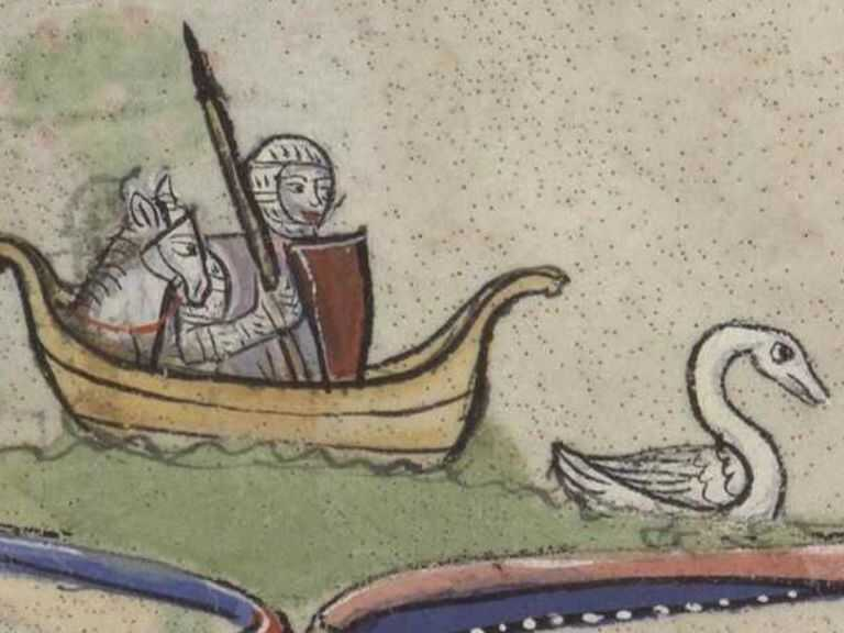 The Knight of the Swan, miniature from a 13th-century manuscript of Gautier de Coinci's "Miracles de Nostre Dame" (Bibliothèque de Besançon, manuscrit 551, folio 021v)